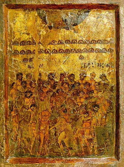 Sts 40 Martyrs at Lake Sebaste 11th century, from the Church of the Mother of God Peribleptos (St. Clement’s), Ohrid, Macedonia